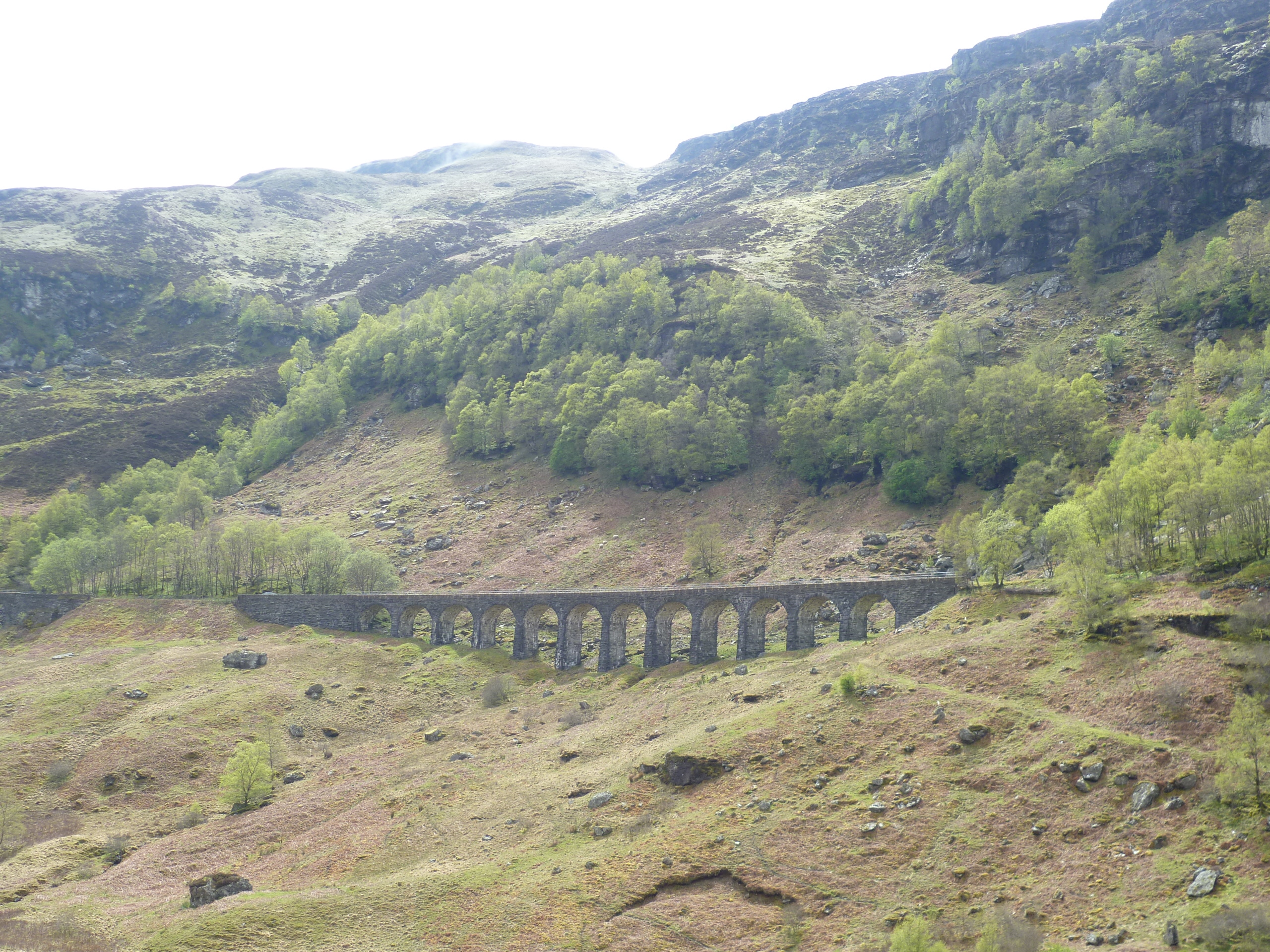 The viaduct, erected c.1870, carried the Callander-Oban Railway between Callander and Killin Junction.